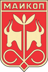 Maikop (Adygea), coat of arms (1970)